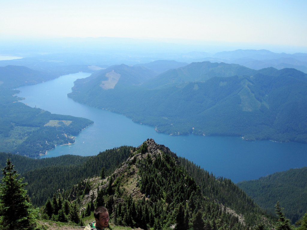 Nice view of Lake Cushman (and Matt Johnson's head which I didn't realize was in the picture, but I think makes a nice addition).